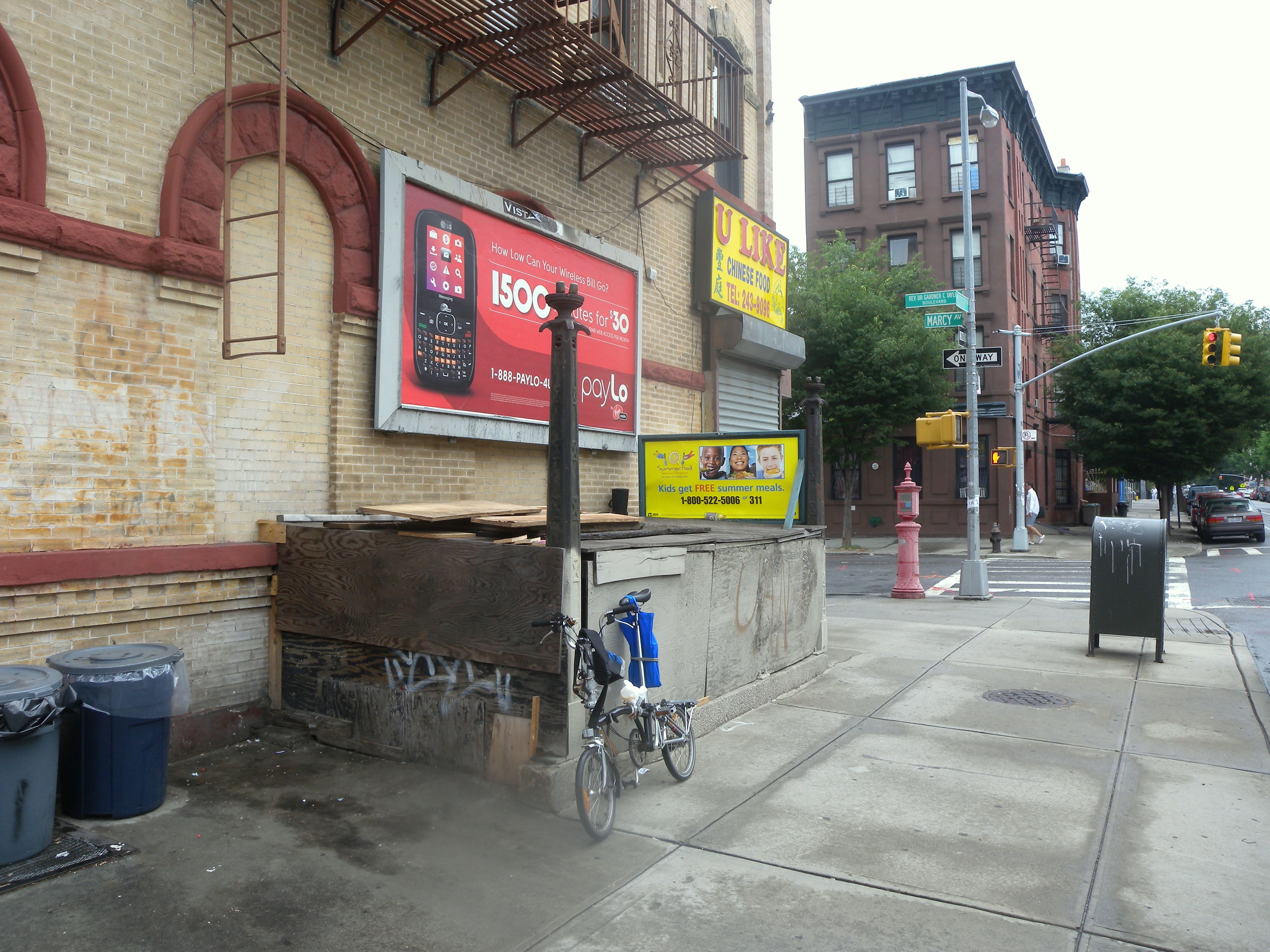 Looking northeast at closed Willoughby Avenue stair on a cloudy day.